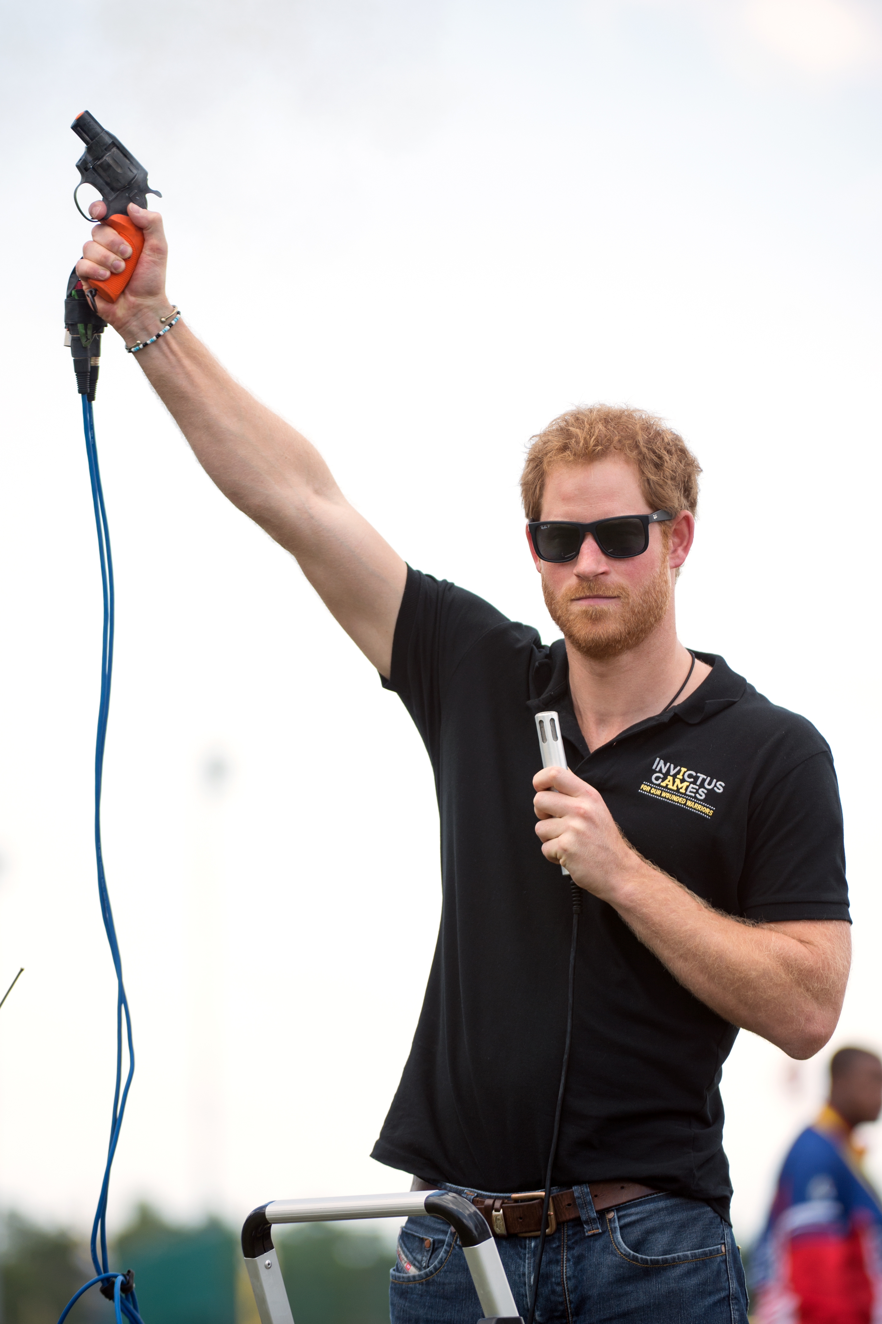 Prince Harry starts a track competition with a starting gun during the 2016 Invictus Games slogan in Orlando, Fla. May 10, 2016. (DoD News photo by EJ Hersom)